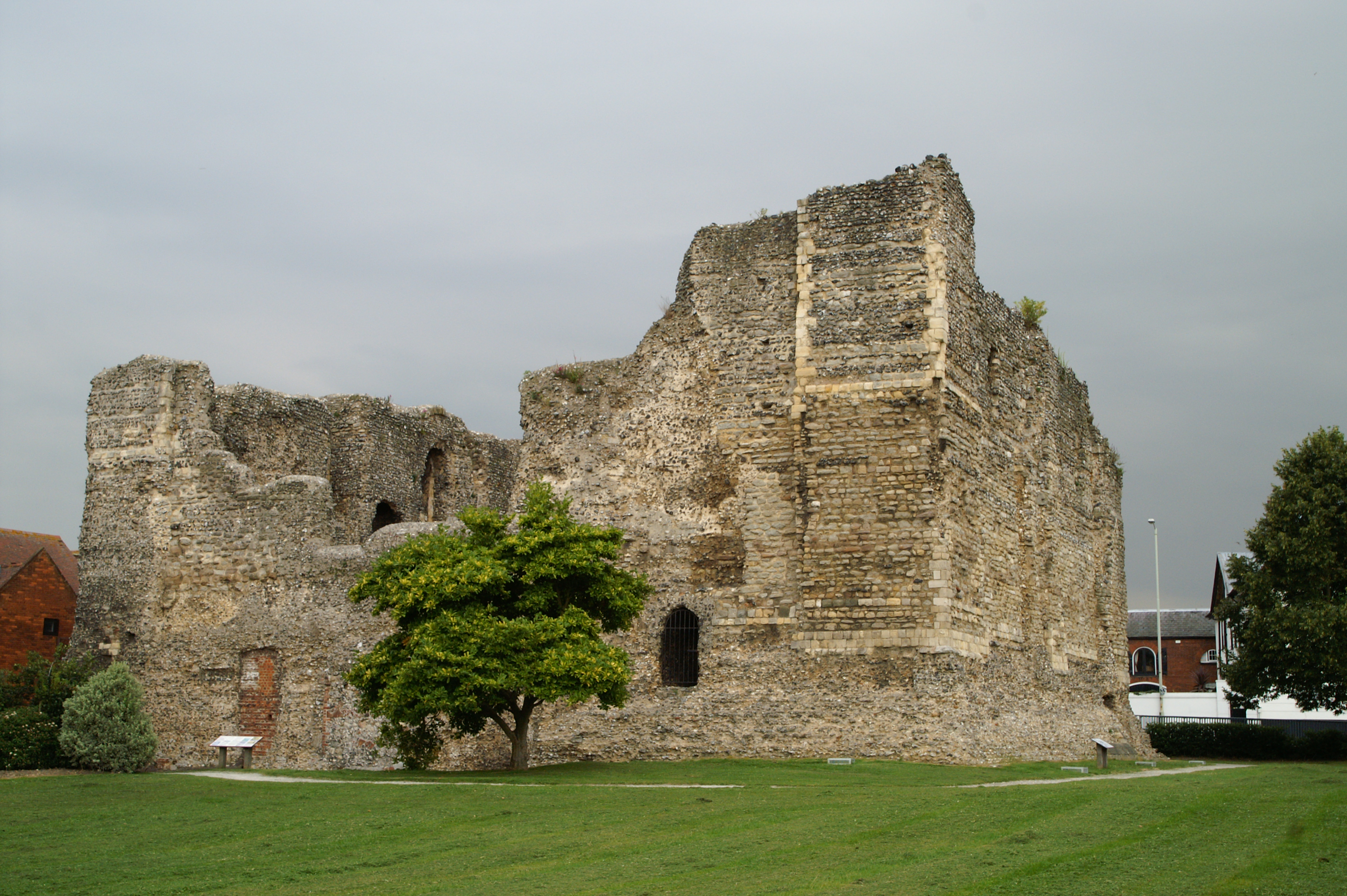 Summary:Canterbury Castle in Canterbury, England is a 12th century Norman castle. Author:Hyougushi